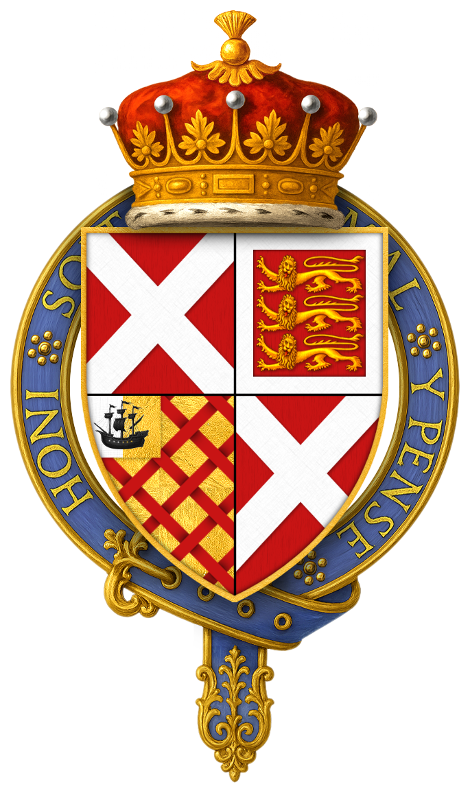 Coat of arms of Sir Ralph Neville, 4th Earl of Westmorland, KG Westmorland's stall plate remains installed within St. George's Chapel. The arms are, quarterly: 1 and 4, gules, a saltire argent (Neville); 2, gules, three lions passant guardant or, within a bordure argent (Holland, Earls of Kent); 3: Or fretty gules, on a canton per pale of the first and argent a galley sable (Neville ancient, the arms of the heiress Isabel de Neville (d.pre-1254) who married Robert FitzMeldred of Raby, whose descendants adopted their mother's surname but their father's arms of Gules, a saltire argent (FitzMeldred/Neville modern). (Neville of Bulmer: Or fretty gules, on a canton per pale ermine and or a galley sable [1] . The mother of the heiress Isabel de Neville (d.pre-1254) was Emma de Bulmer, heiress of Brancepeth and Sheriff Hulton). As seen also on monument of Henry Manners 2nd Earl Rutland and his wife Margaret Neville in the Church of St Mary the Virgin, Bottesford, Lincolnshire[2] [3]